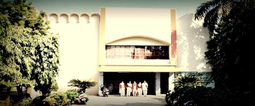 Munnalal Girls College, Saharanpur